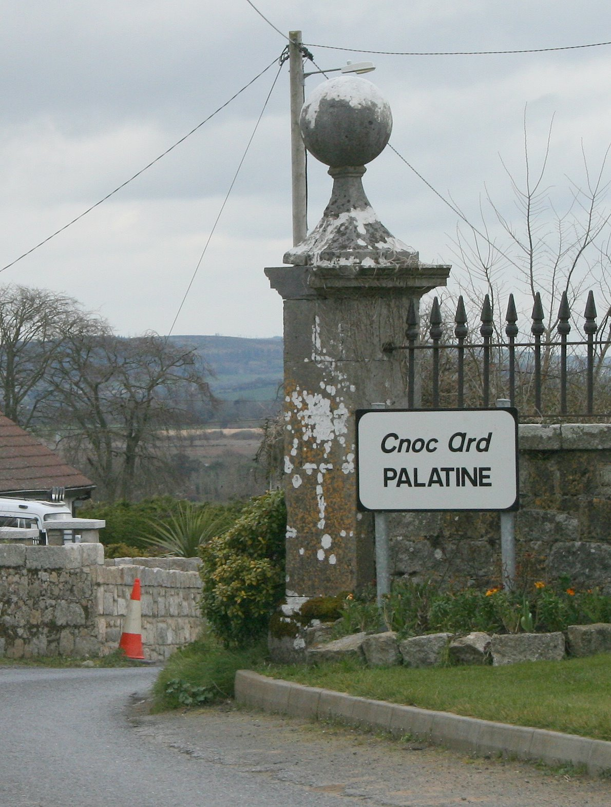 Palatine, County Carlow, Ireland